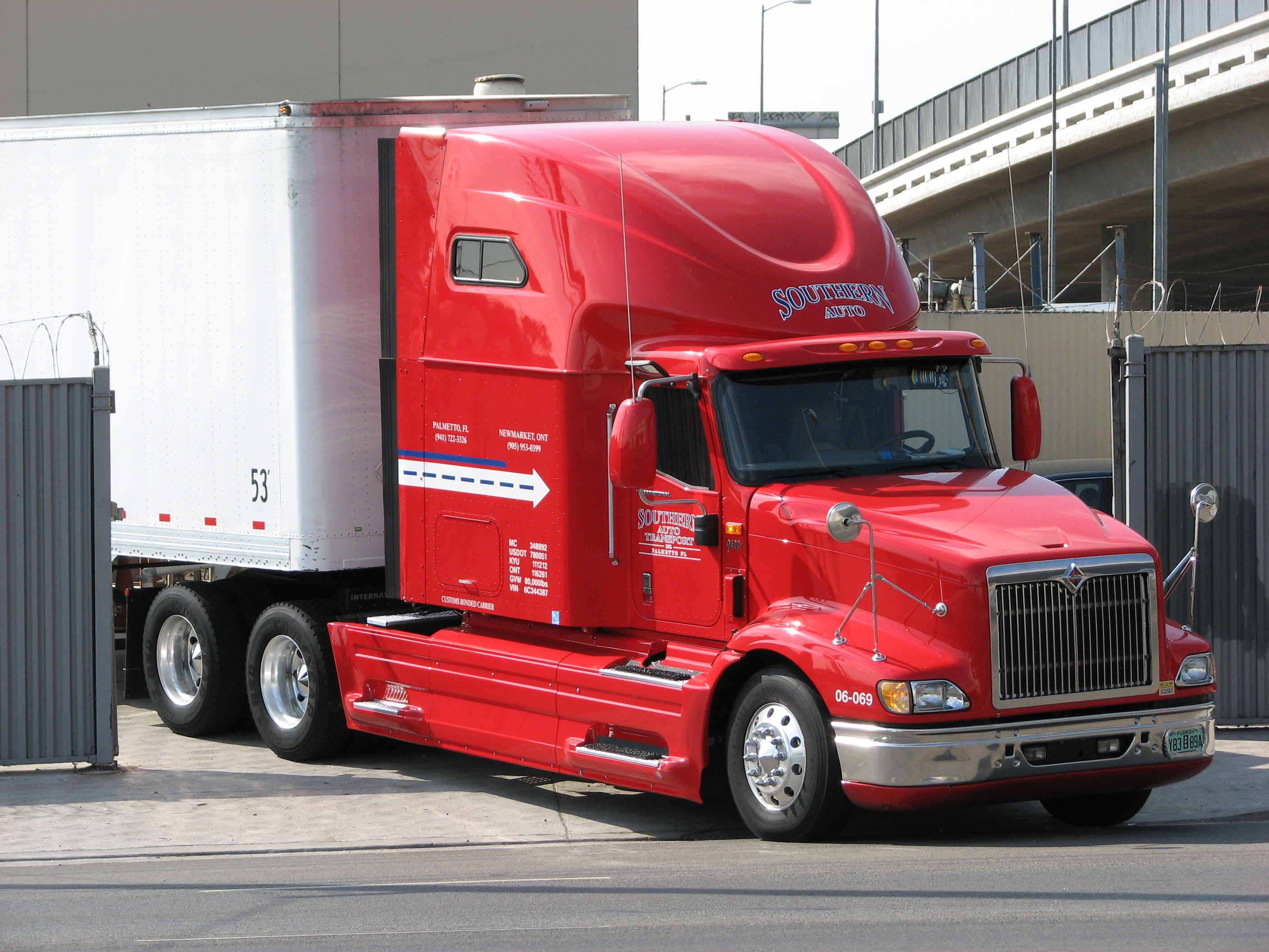 International truck in Florida. Washington BLVD Los Angeles